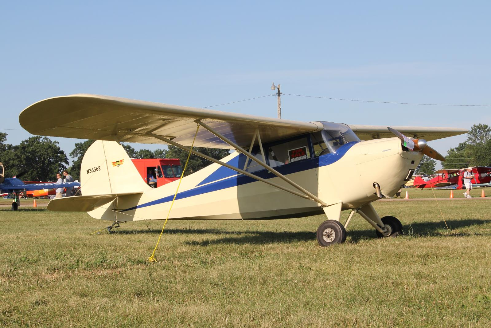 Aeronca 65-CA (N36562)